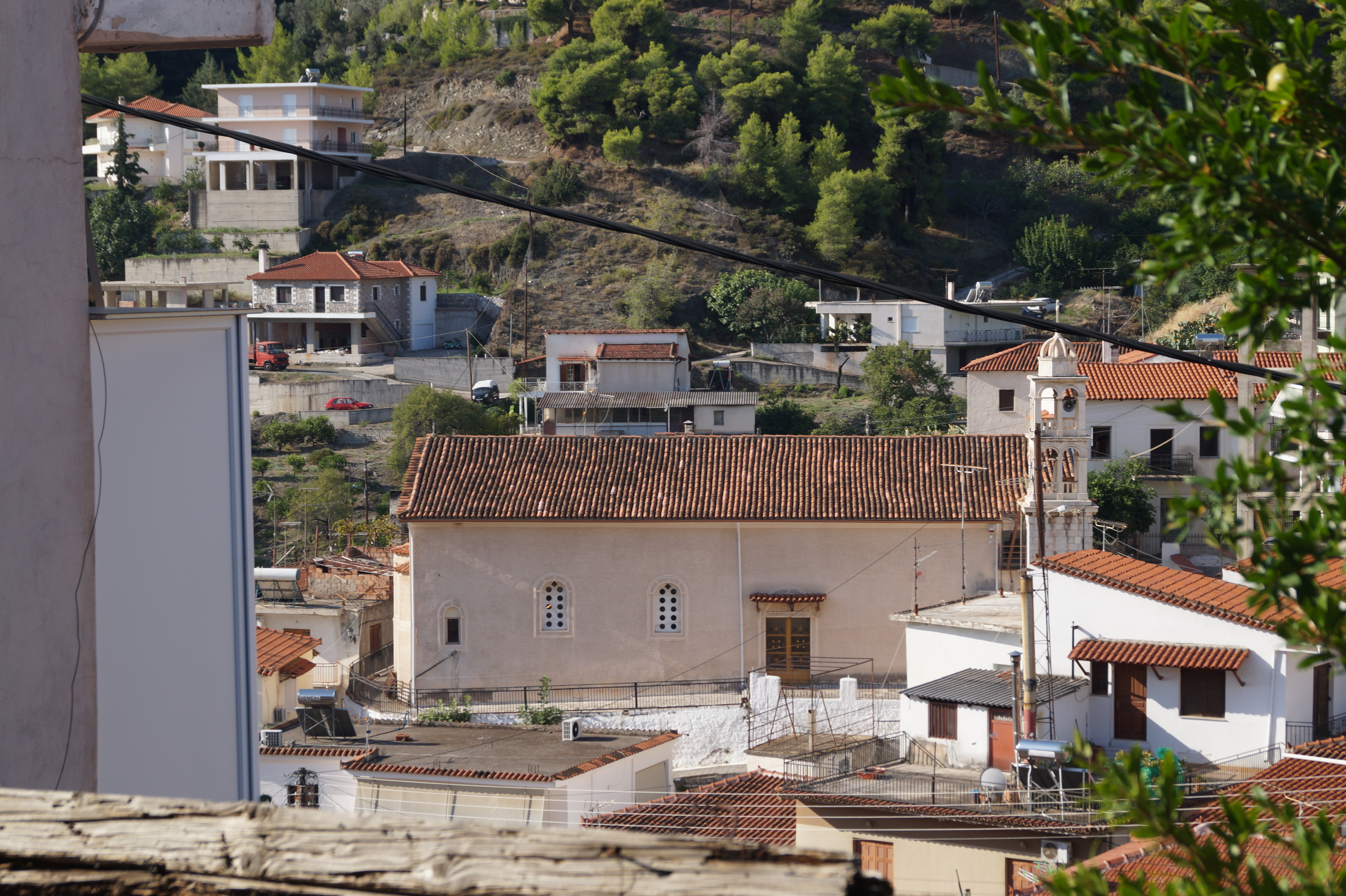 Nea Epidavros, Argolida, Greece: Church Evangelistrias.